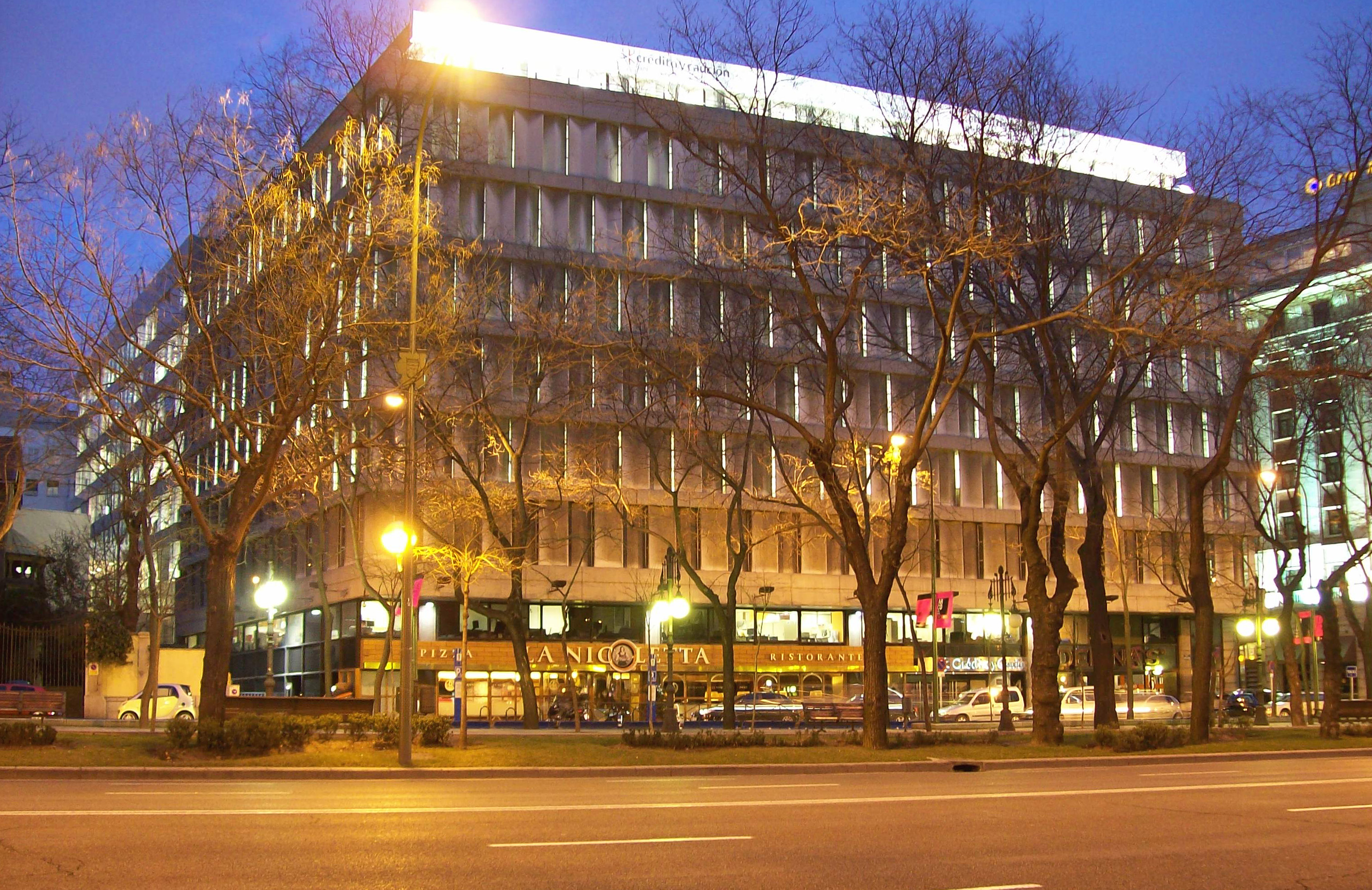 Night view of the former IBM building at 4th Paseo de la Castellana (avenue) in Salamanca district in Madrid (Spain).